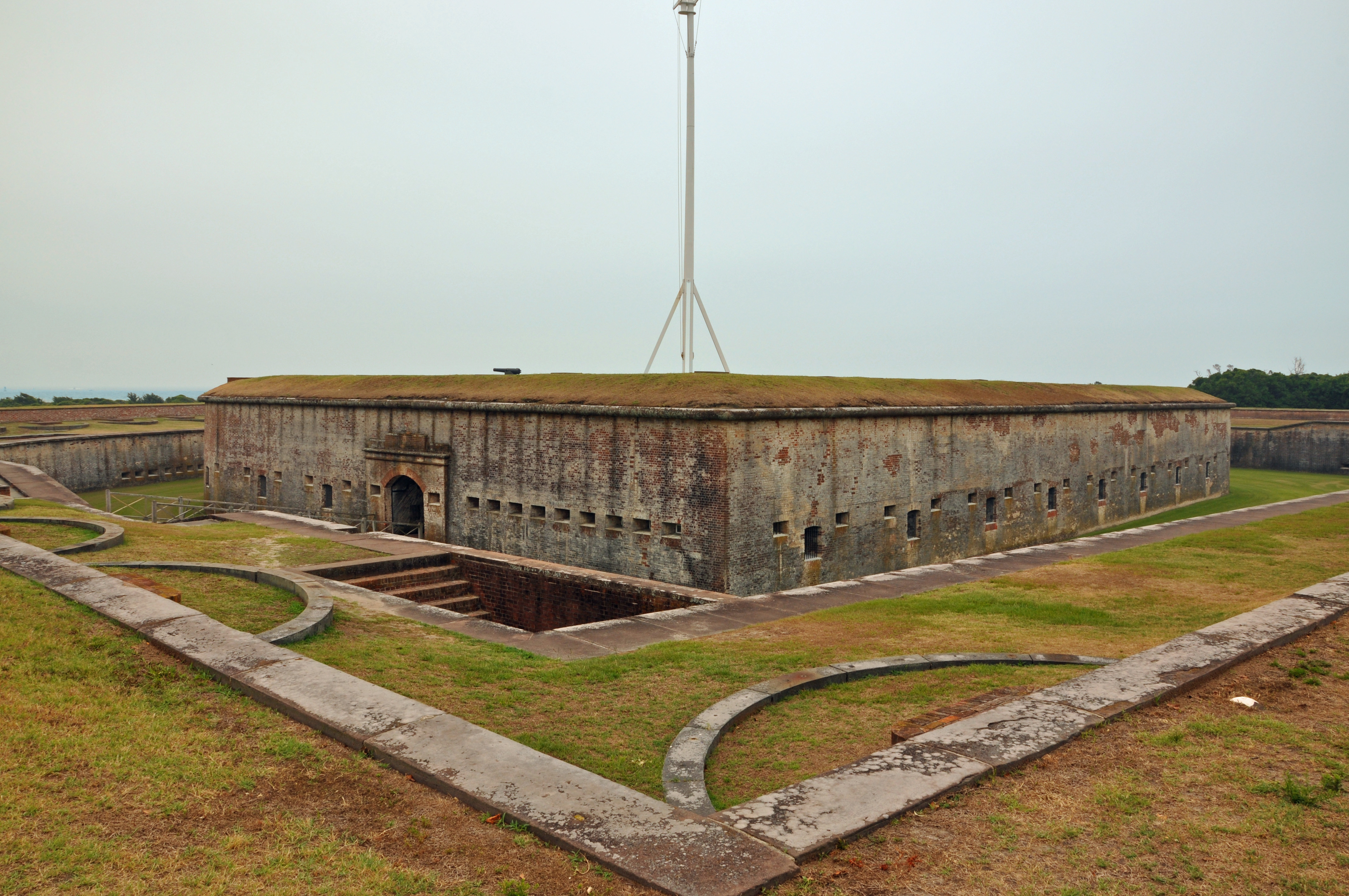 Fort Macon as viewed from one of the shoreward sides.